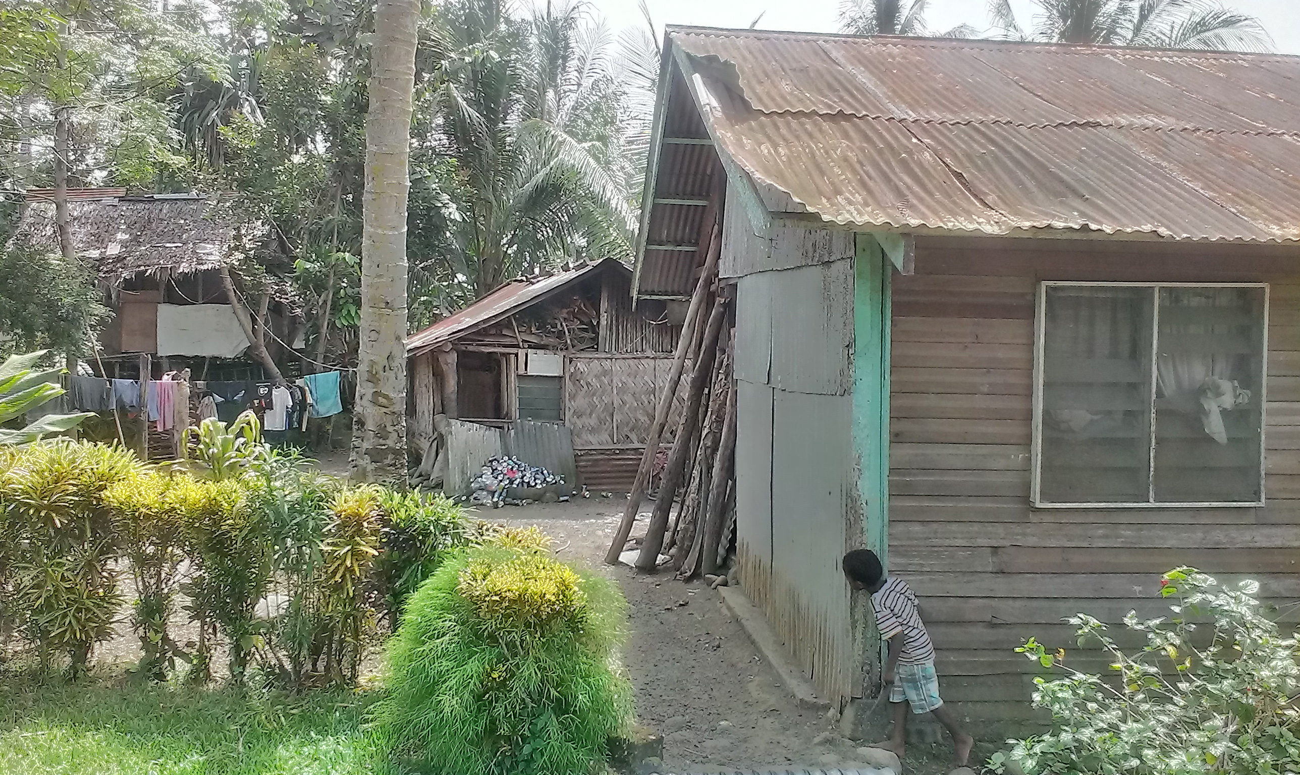 Photo of the missionary houses at Malahang Mission Station, Lae, Morobe Province. Photo taken 30 January 2014